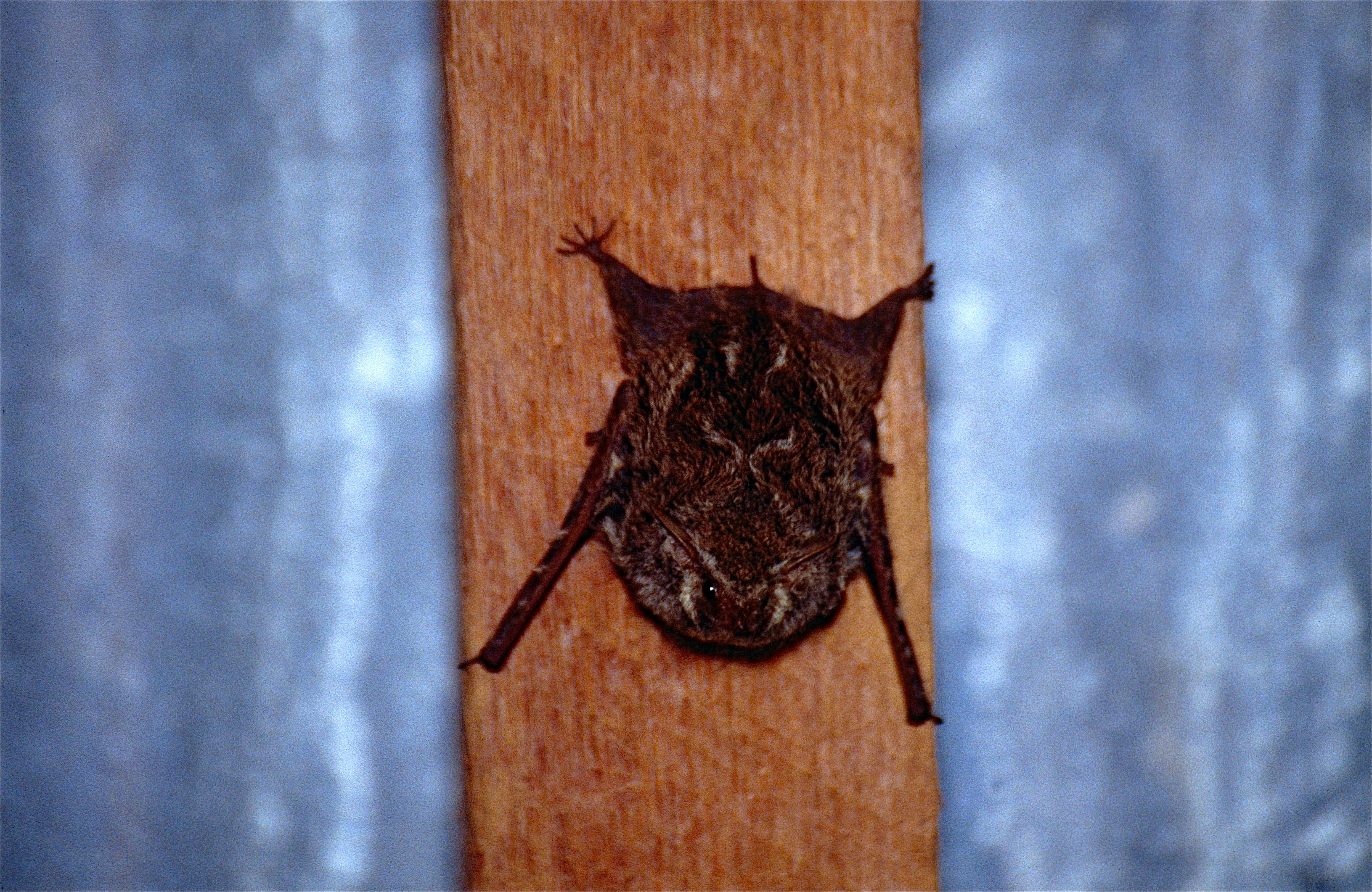 Route de Kaw, Roura, Guyane, FRANCE Scanned Slide from 1998